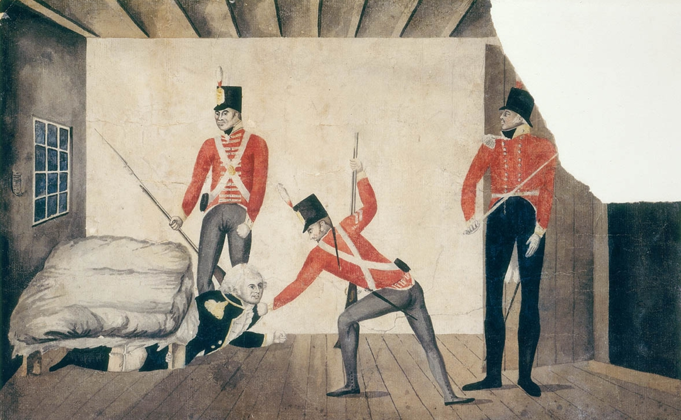 The arrest of Governor Bligh, 1808, artist unknown, watercolour drawing, attached to the left hand wall in the image is a sheet with text, "O what can the matter be", Mitchell Library, State Library of New South Wales, Safe 4/5